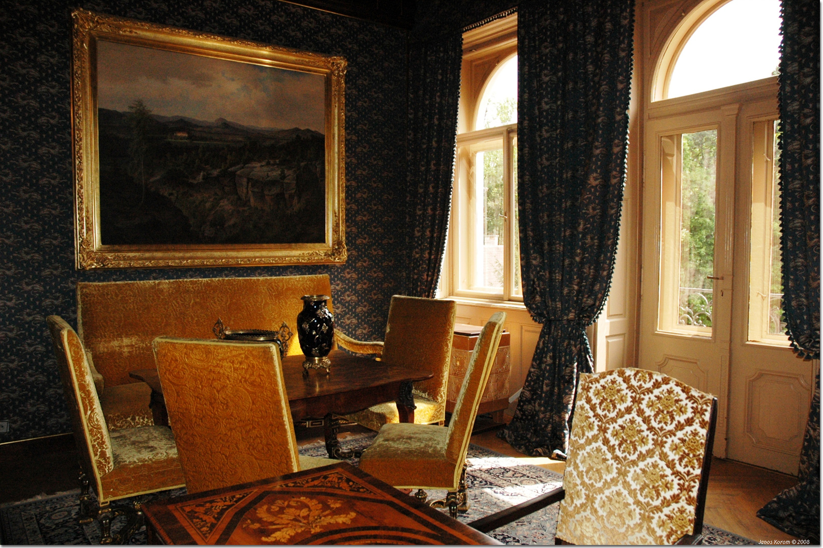 Slovakia, Betliar Castle, 2008